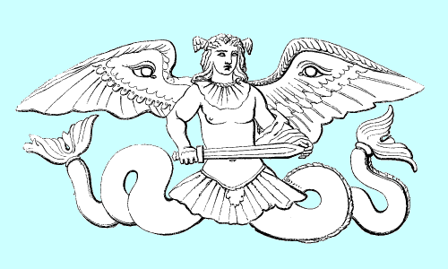 ETRUSCAN MARINE DEITY